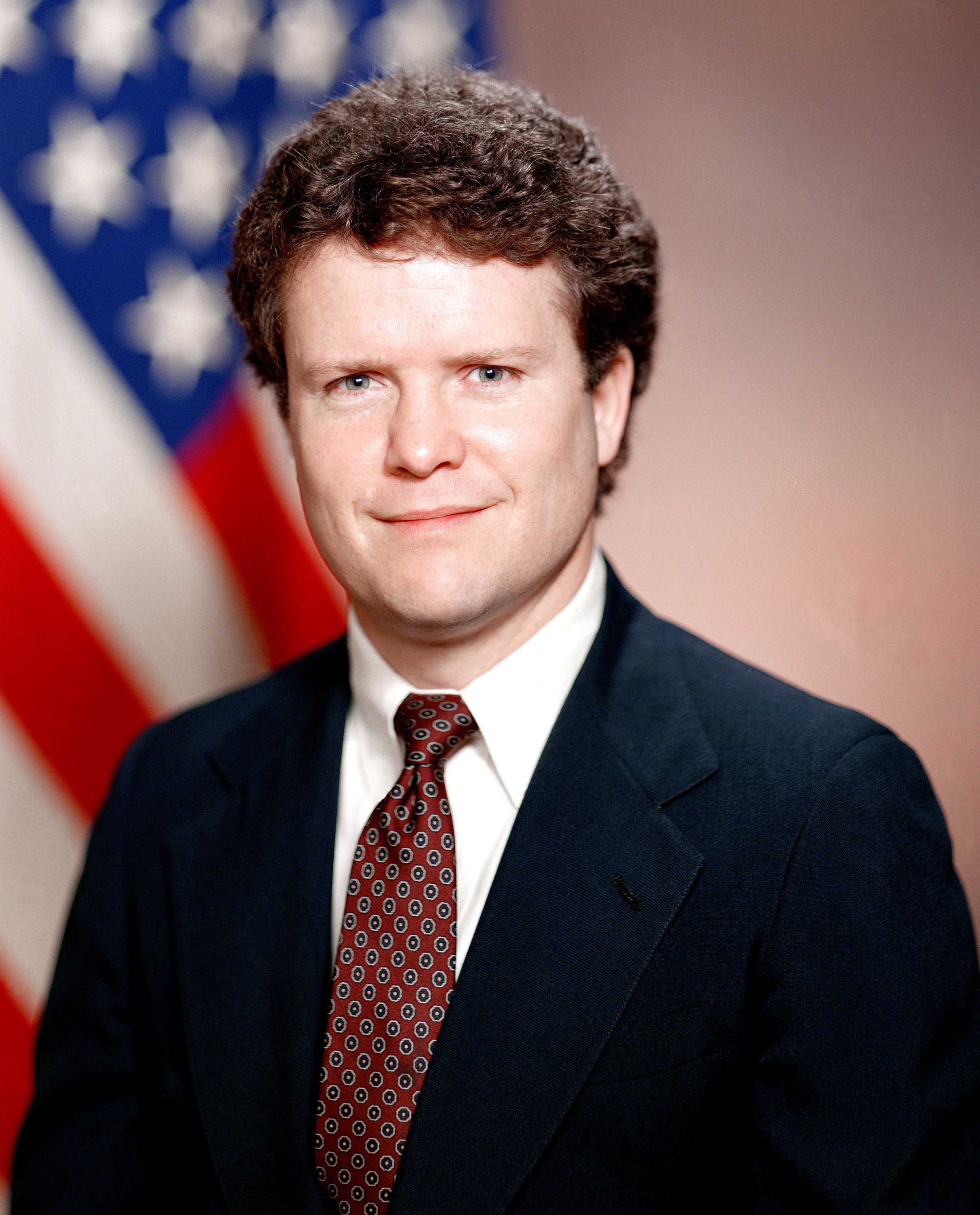 James Webb, U.S. politician, former Secretary of the Navy and Assistant Secretary of Defense.